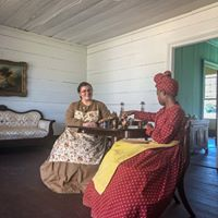 1850s dressed ladies having tea in historic home, Historic Westville